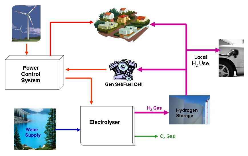 Basic for wind hydrogen system for an off-grid community